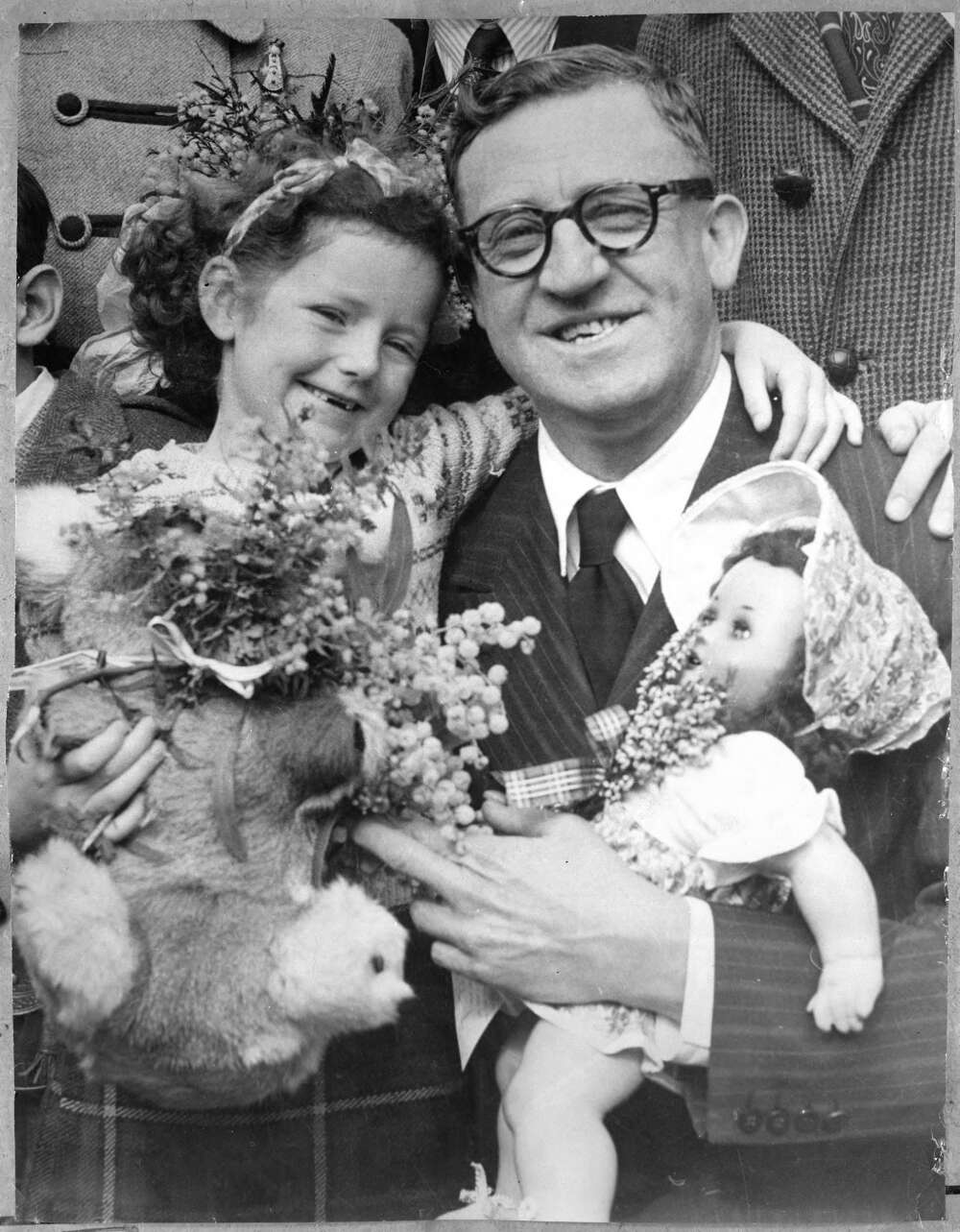 Arthur Calwell, Australia's Minister for Immigration, welcoming 100 000th British migrant, Isobel Saxelby, 1949 Original NLA description : Arthur Calwell, Australia's Minister for Immigration, welcoming 100 000th British migrant, Isobel Savery, 1949, but the correct family name is Saxelby. See Libby Stewart, Isobel and the koala, Museum of Australian Democracy at Old Parliament House, 16 September 2017 "100,000th U.K. Migrant", The Advocate, 27 August 1949 Rachel Baxendale, « Arthur Calwell’s ten-pound Poms bear up well », The Australian, 11 July 2017